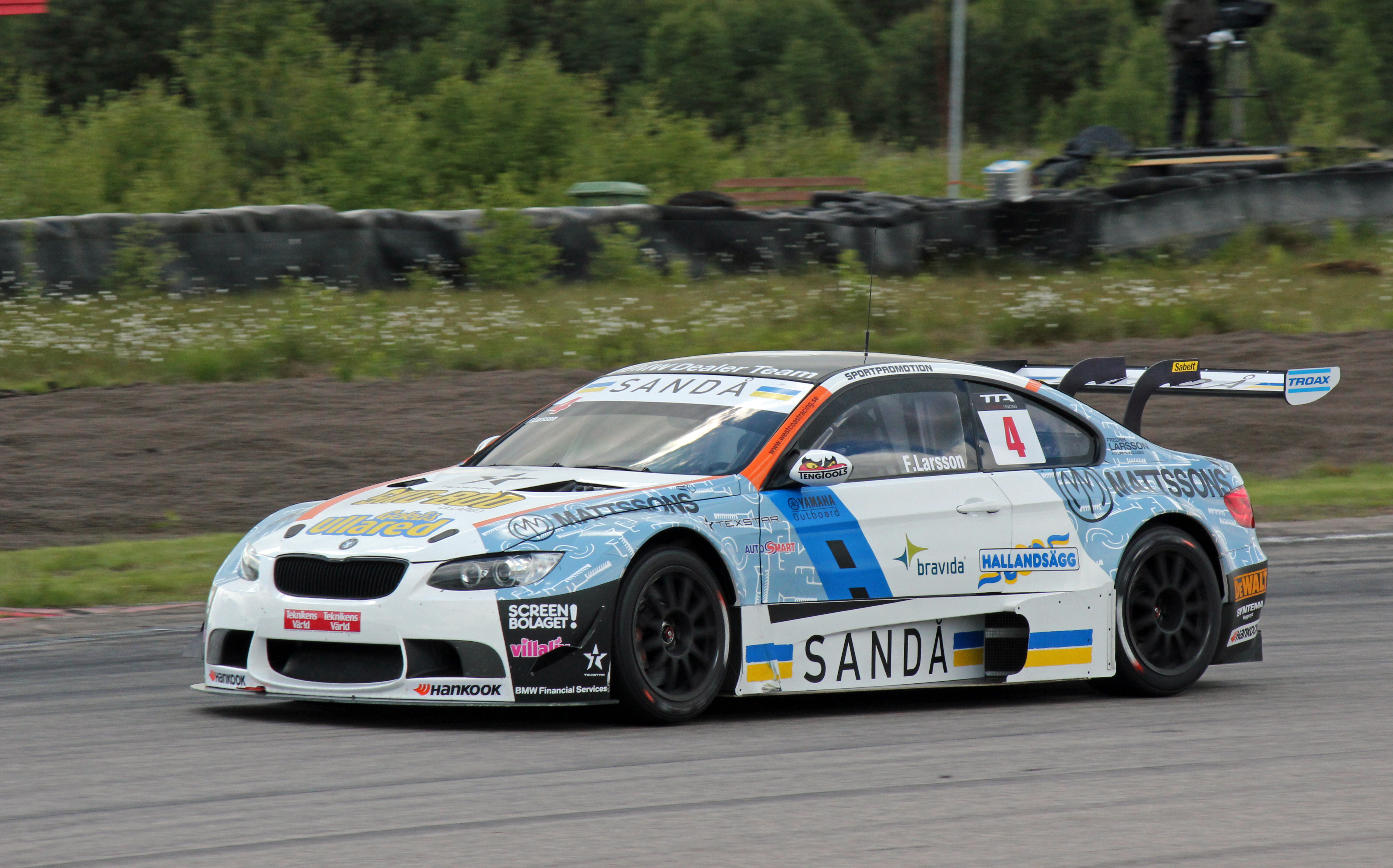 Fredrik Larsson in his BMW Solution-F for WestCoast Racing in TTA – Racing Elite League at Anderstorp Raceway in 2012.